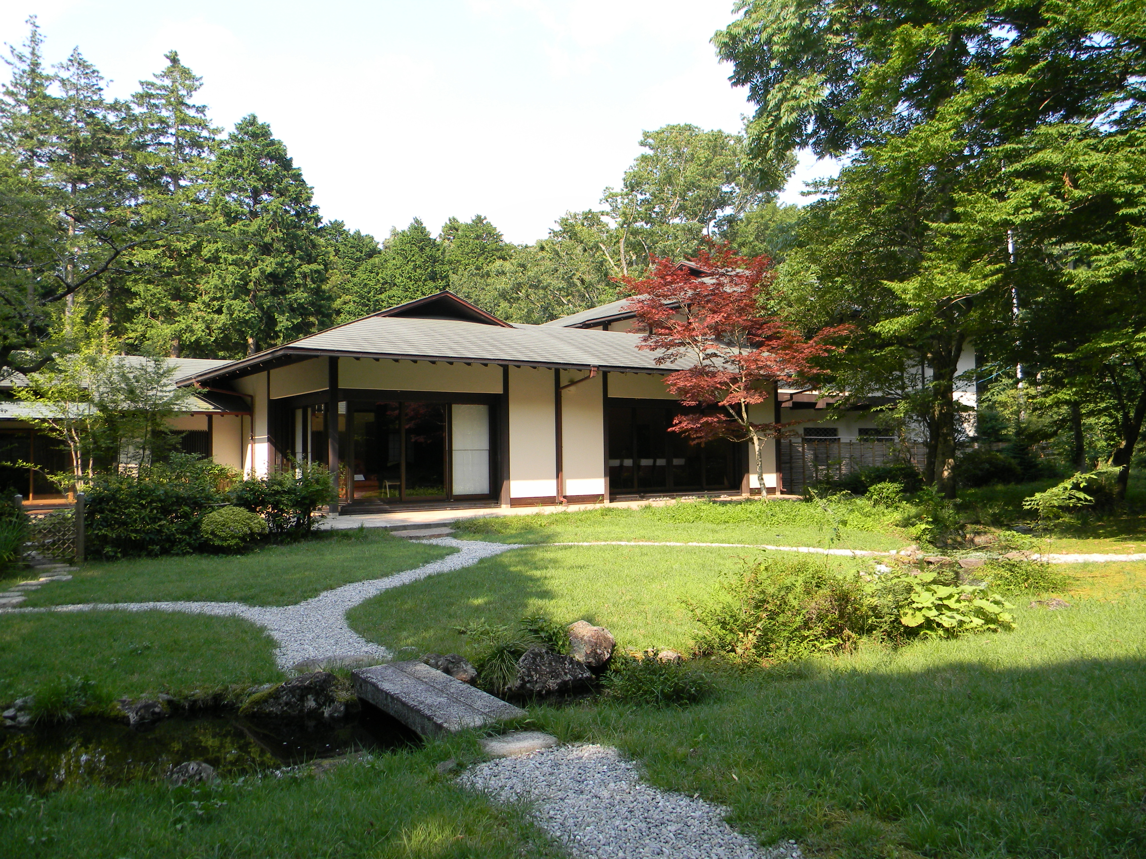 Villa of Kishi Nobusuke in Gotemba, Japan. He is a prime minister of Japan in 1950s.